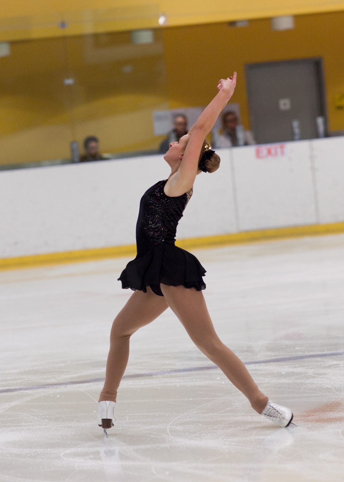 Senior competitor Iceland at Nordics 2013